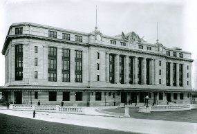 1908 view of the new Lackawanna Station, built in Scranton, Pennsylvania, to serve as a municipal railroad station and company offices of the Delaware, Lackawanna, and Western Railroad.